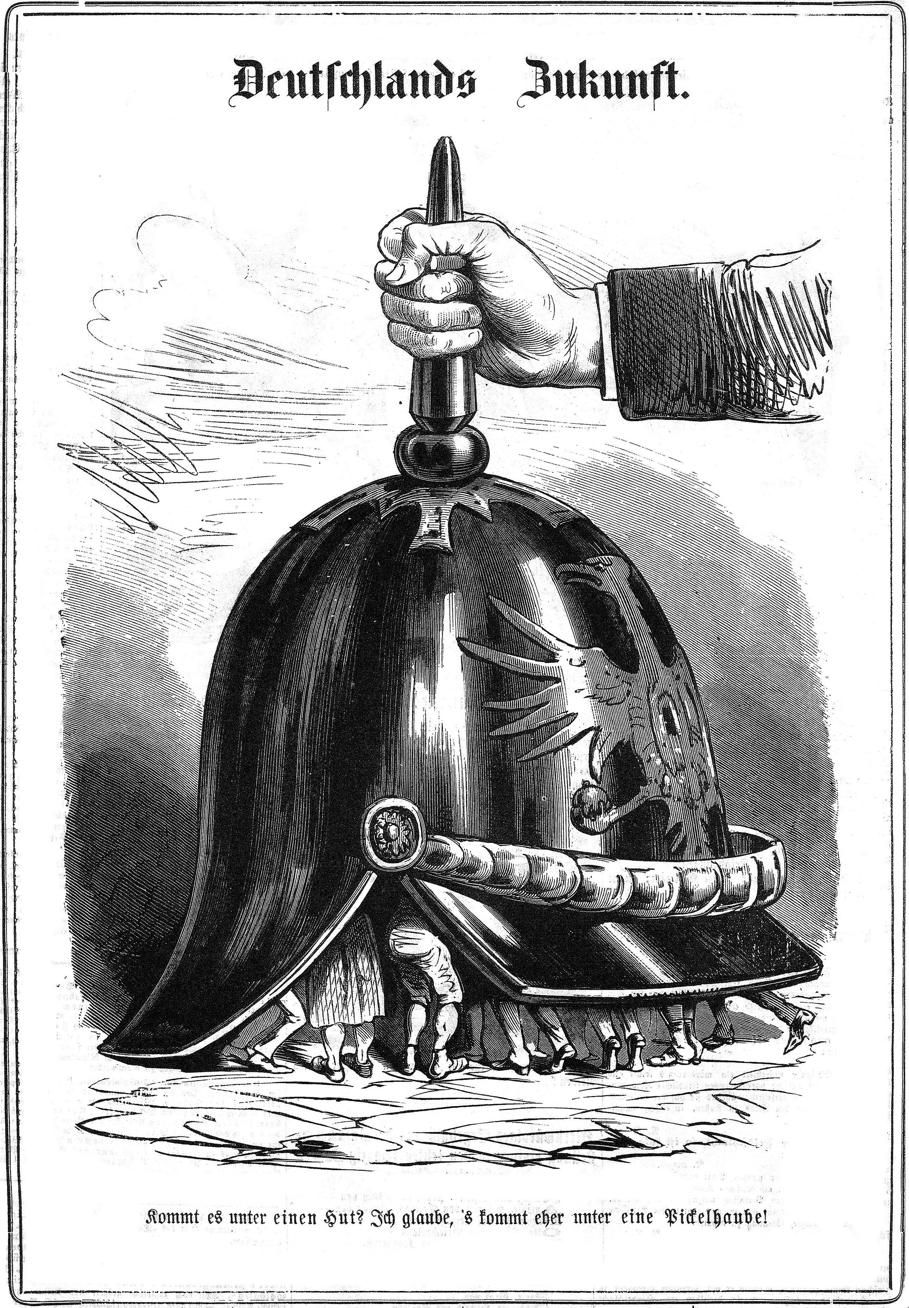 „Germany’s Future“, caption reads: „Will it fit under one hat? I believe it is more likely to come under a Pickelhaube!“